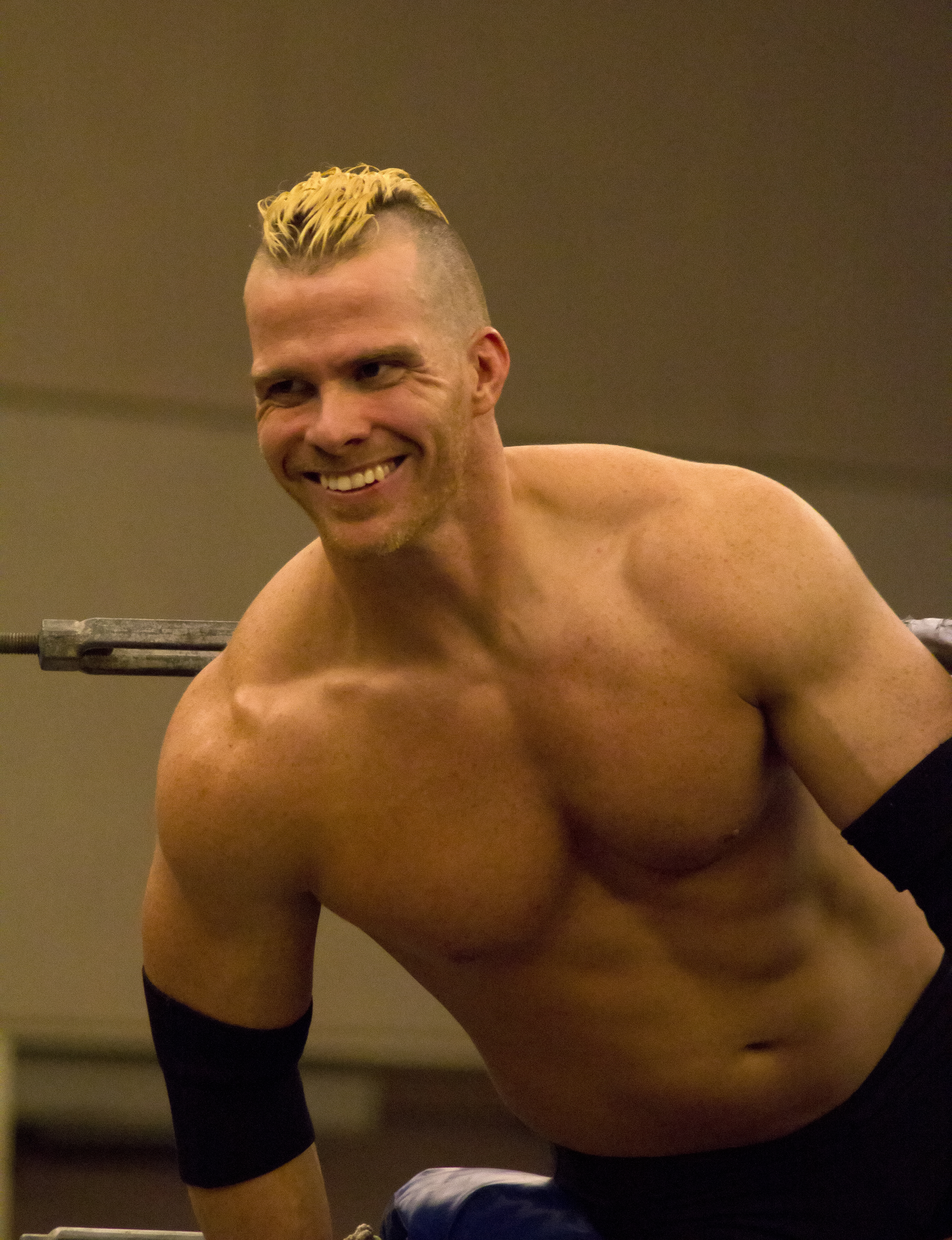 Tyson Dux, playing to the crowd, at a Maximum Pro wrestling event